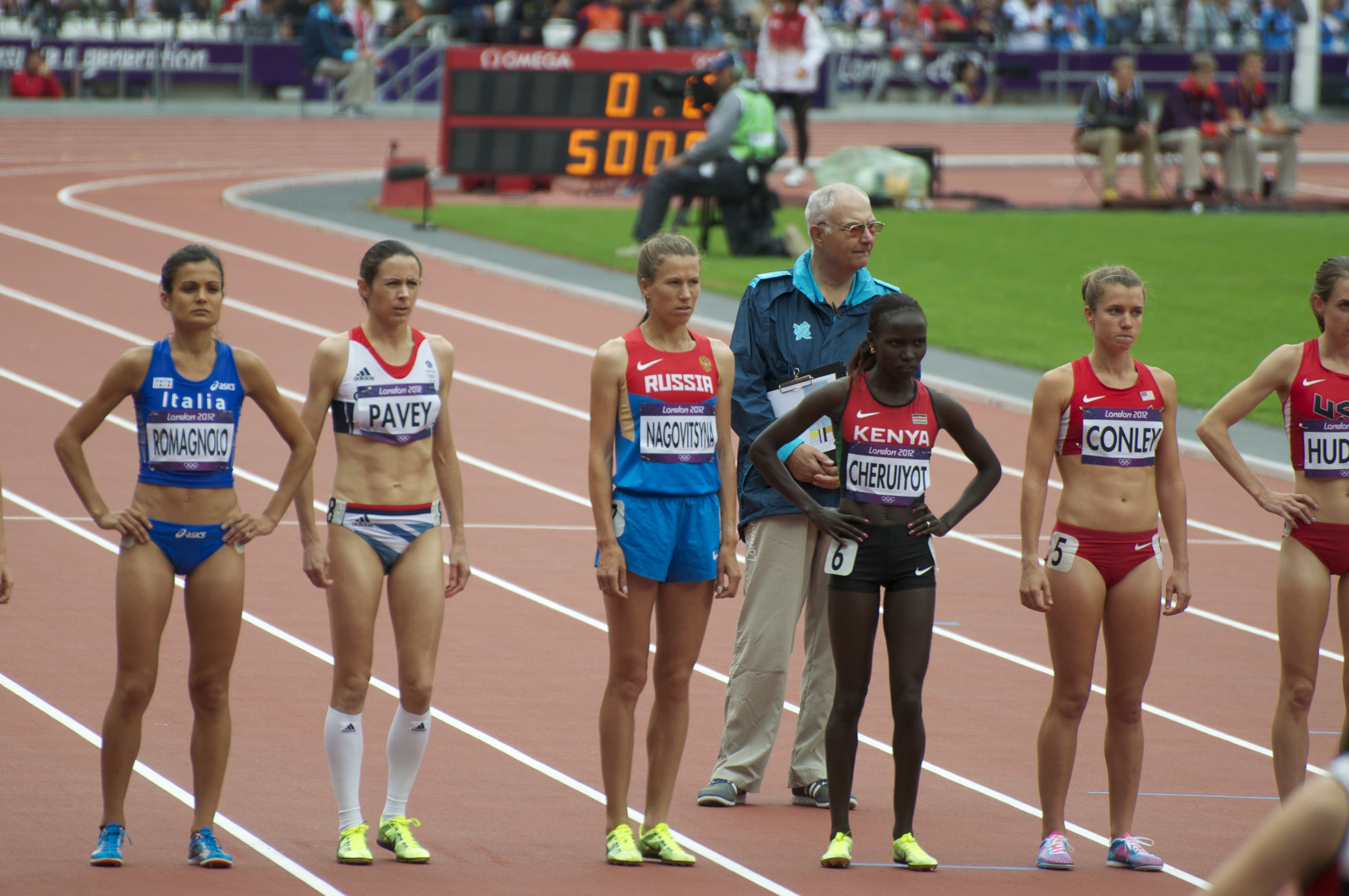 Women's 5000m, Elena Romagnolo, Joanne Pavey, Yelena Nagovitsyna, Vivian Jepkemoi Cheruiyot, Kim Conley